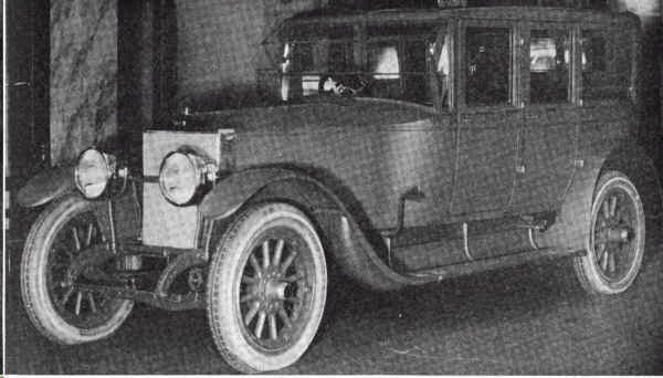 1919 Porter Model 45 Sedan